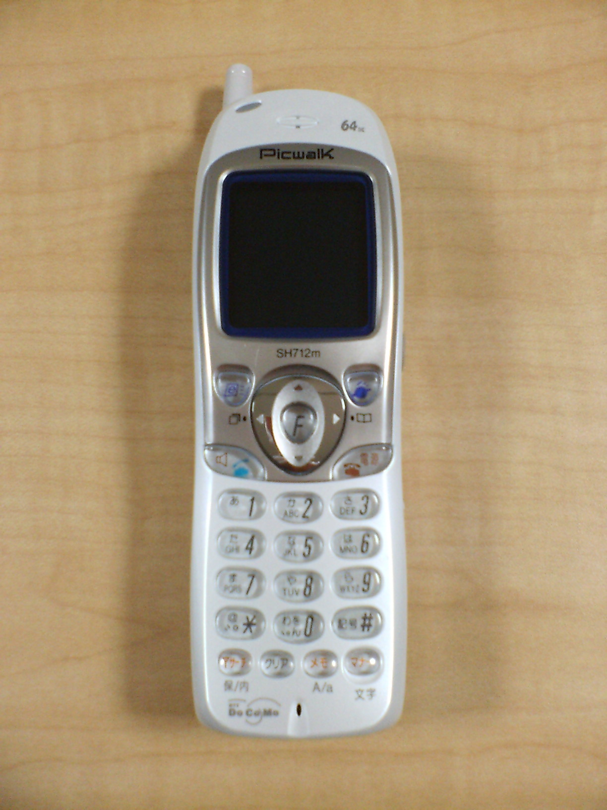 NTT DoCoMo/Sharp Picwalk SH712m PHS mobile phone